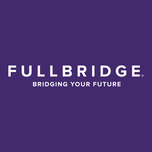 Fullbridge Inc Logo and Brand Positioning